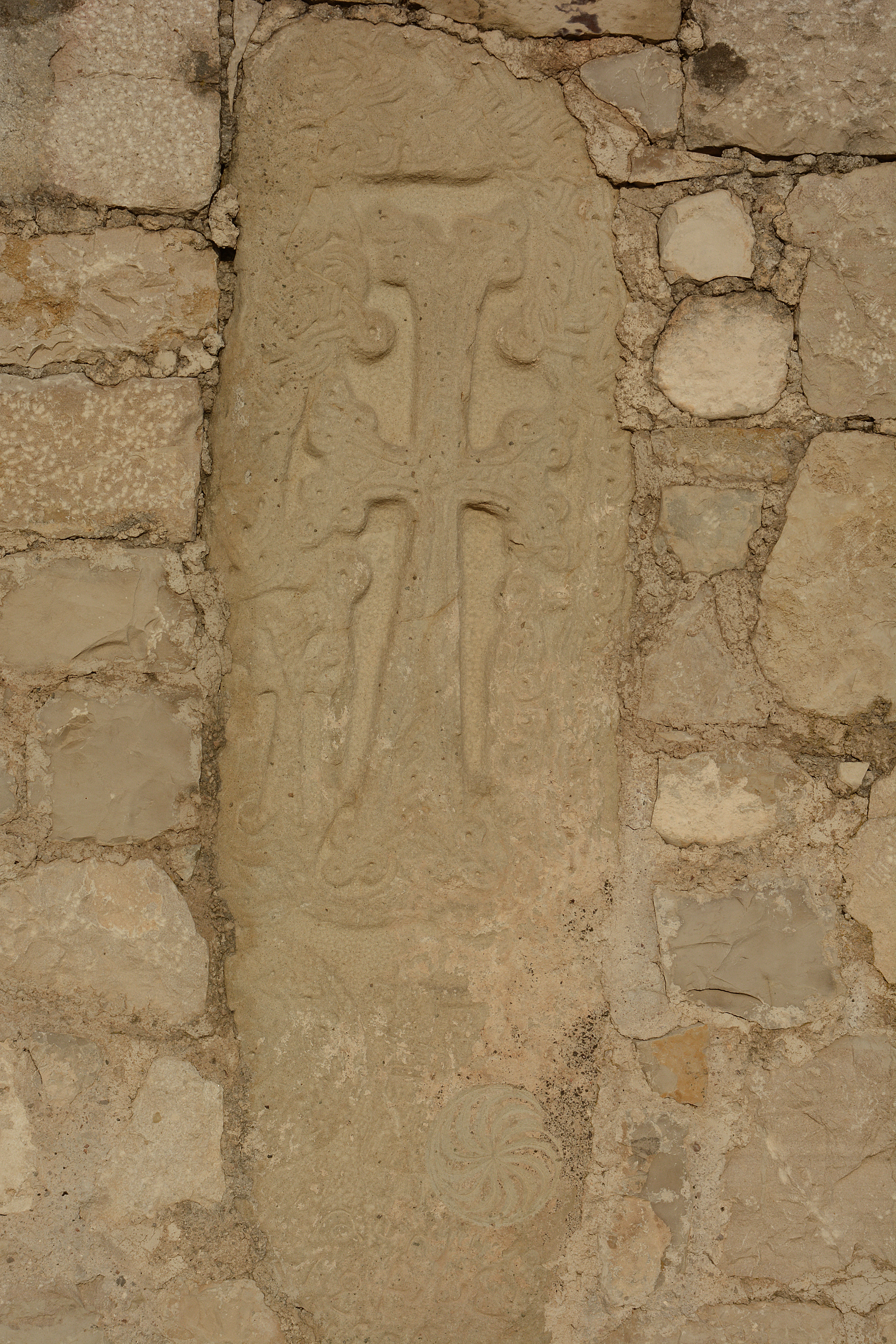 Khachkar՚s in Noragyugh